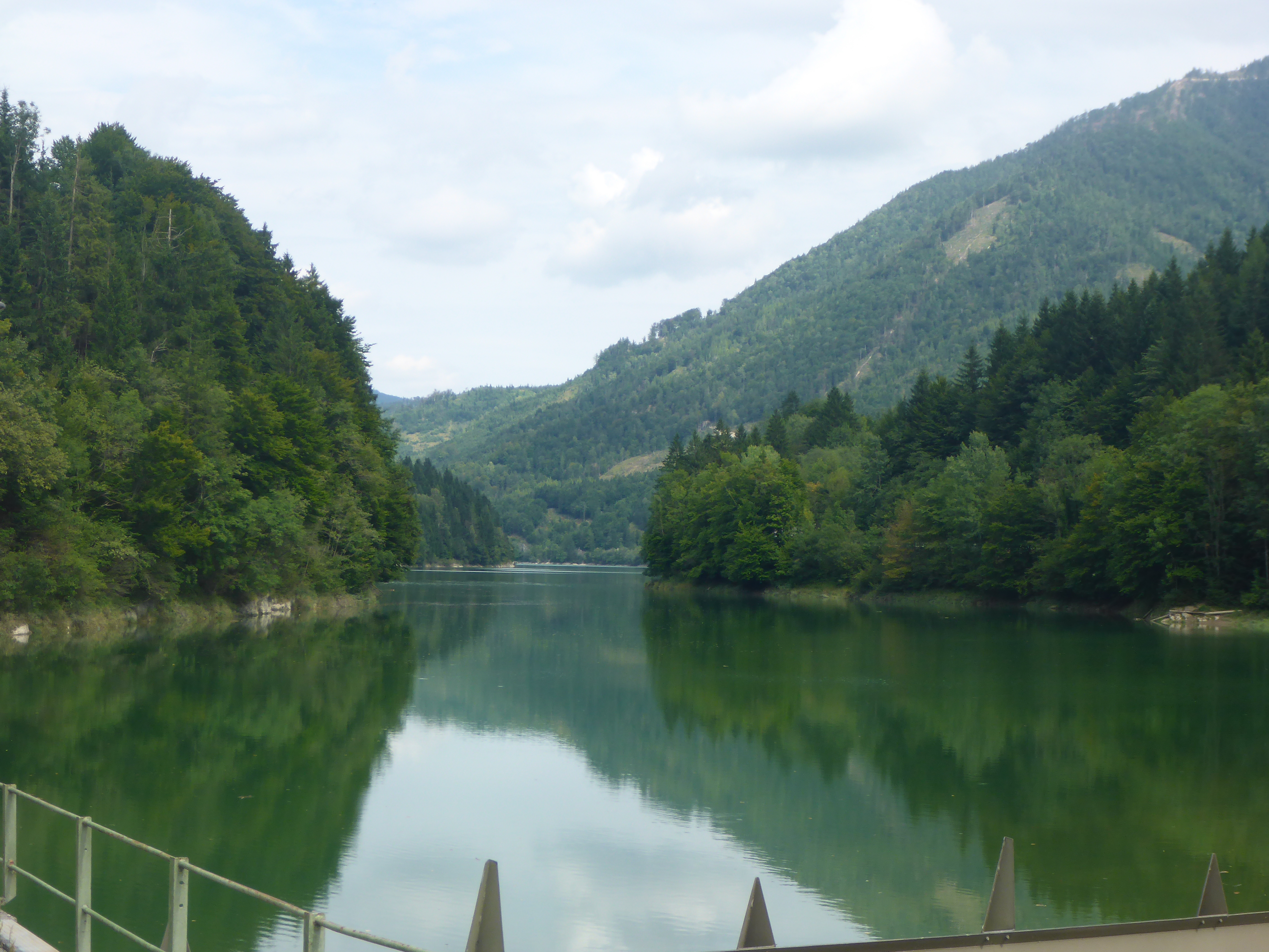 The Wiestal reservoir taken from the dam